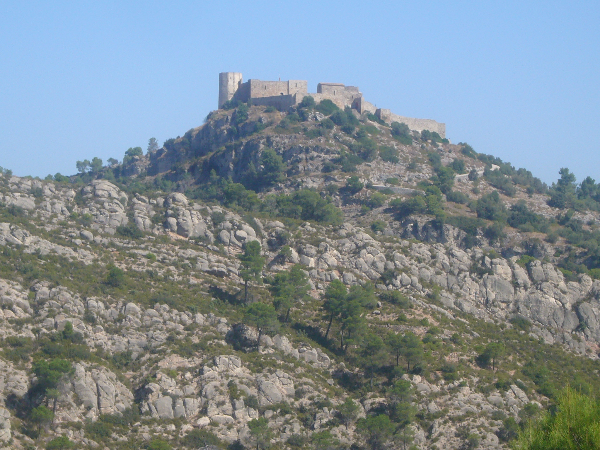 Castell de Claramunt, seen from Xaró